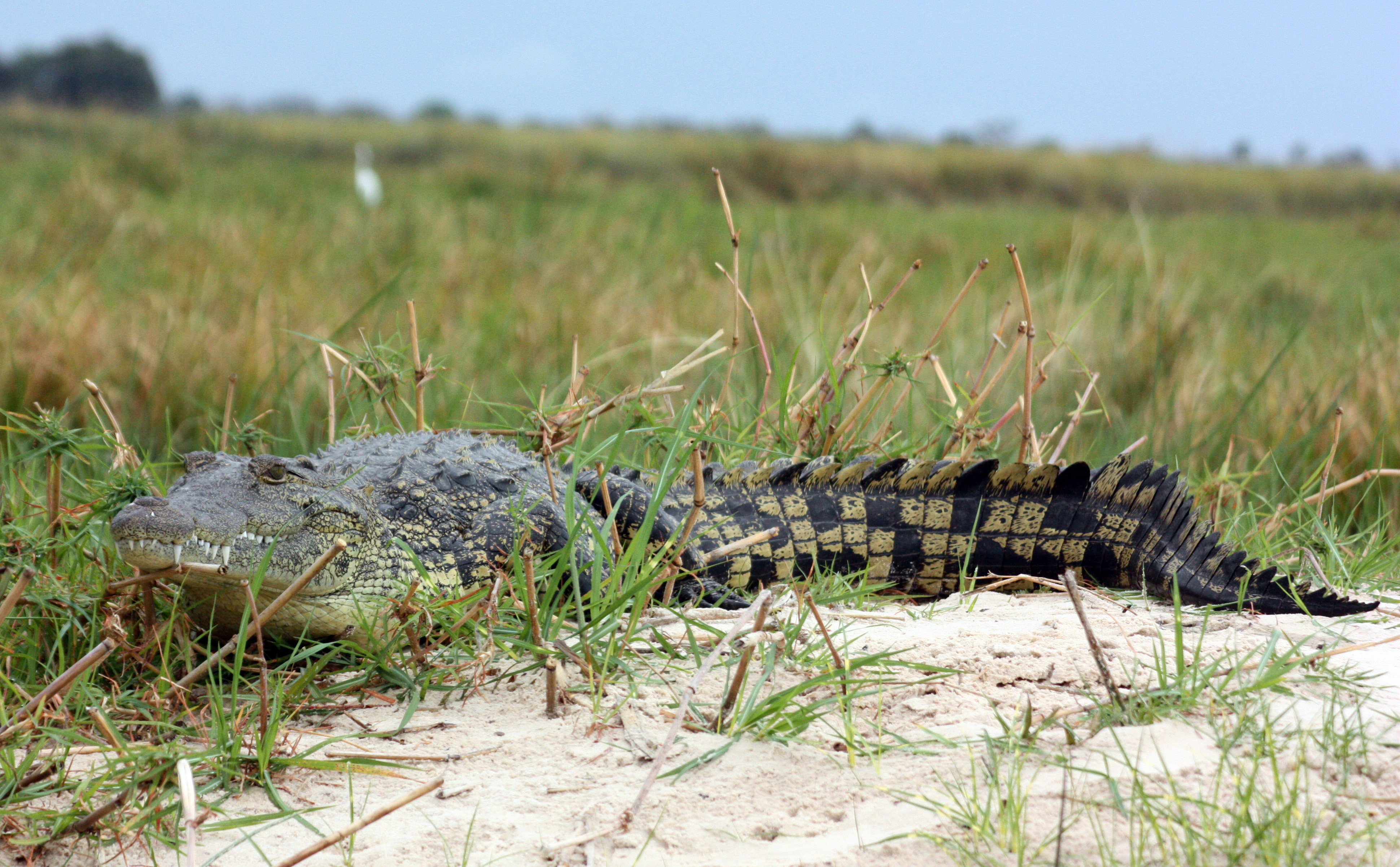 Crocodile (crocodylus niloticus) in the Okavango Delta, Botswana